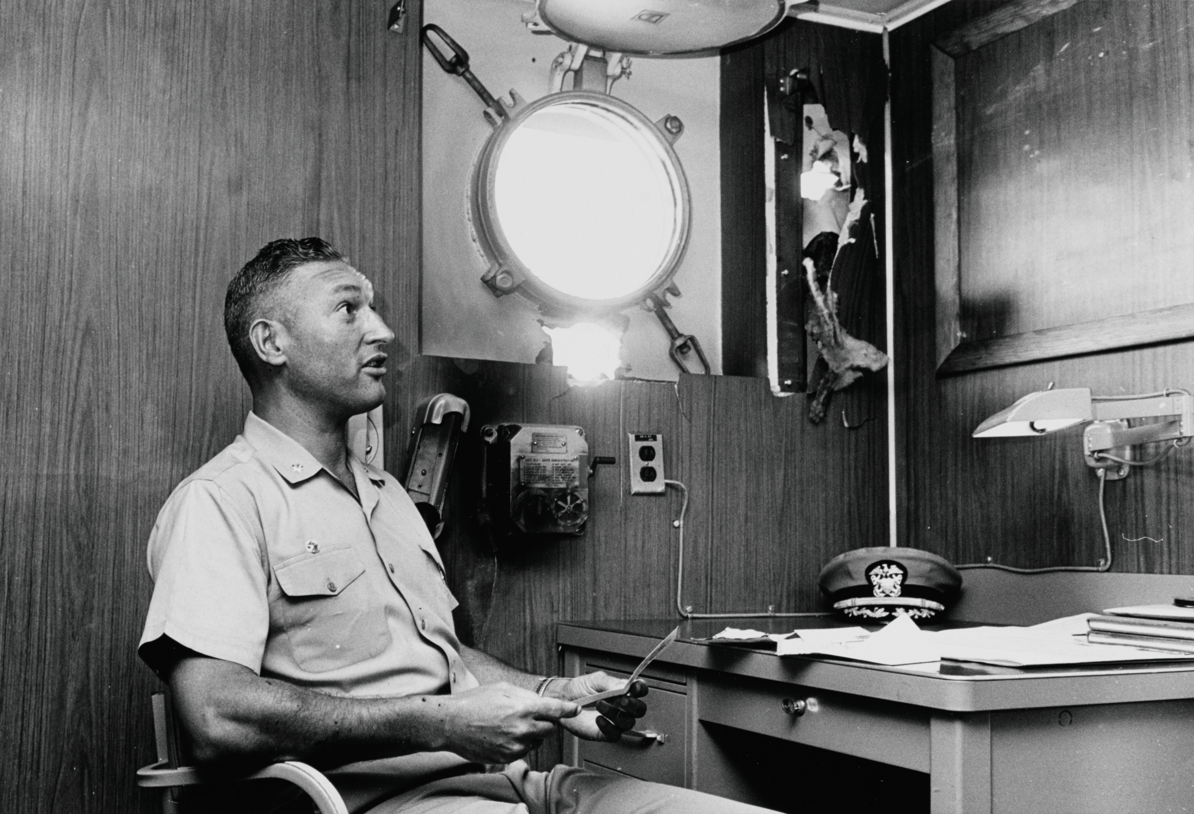 Commander sits in damaged cabin / US Navy photo Caption formerly at top read: Photo # NH 97474 Cdr. W.L. McGonagle in his cabin on board USS Liberty, June 1967